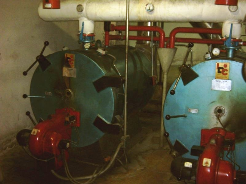 Gas boiler